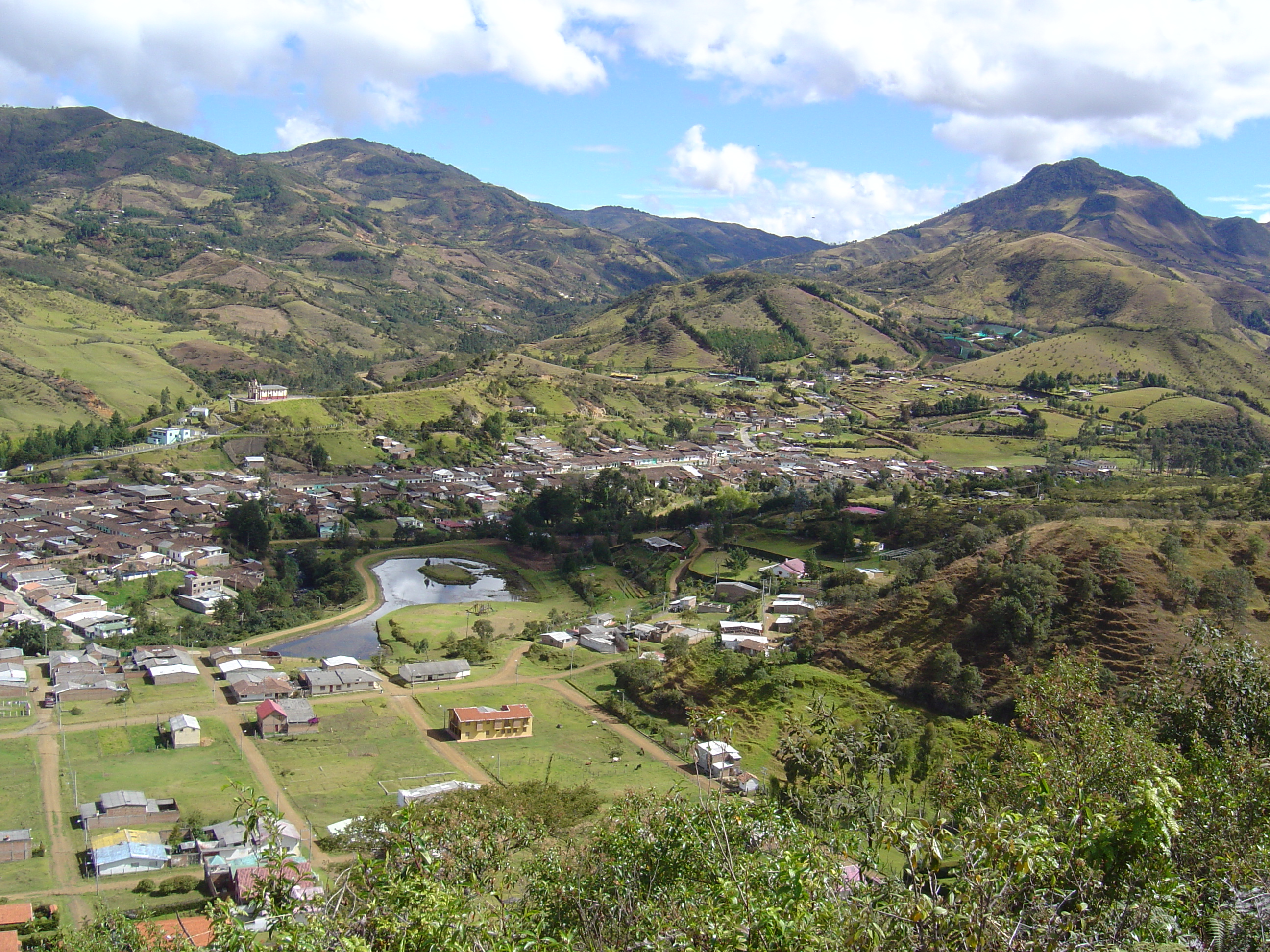 Panoramica de Silvia Cauca